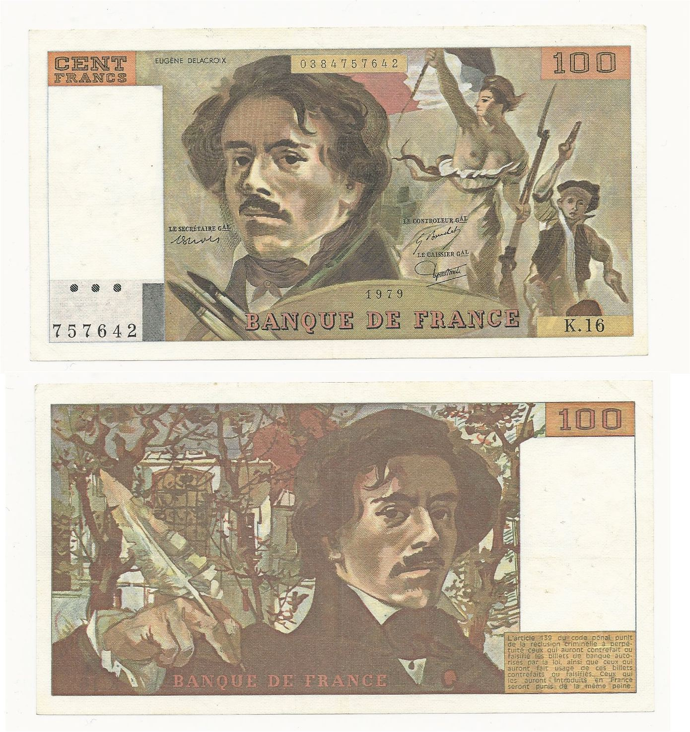 Delacroix, Eugène, Romantic Artist, 1798 Charenton-St Maurice (Seine) -1863 Paris, France. Portrait l. at l. / Bust r. at r. Pick 154a.